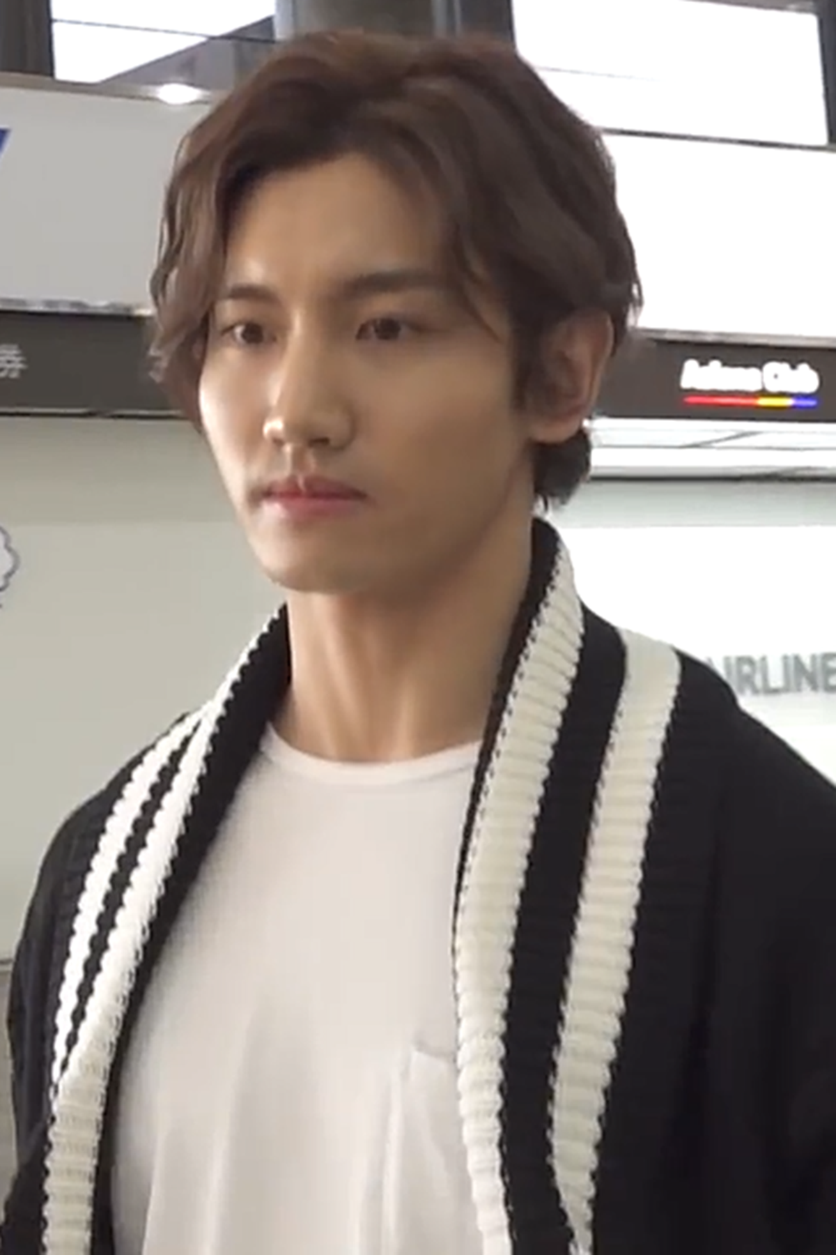 Changmin at Gimpo International Airport on January 16, 2019.